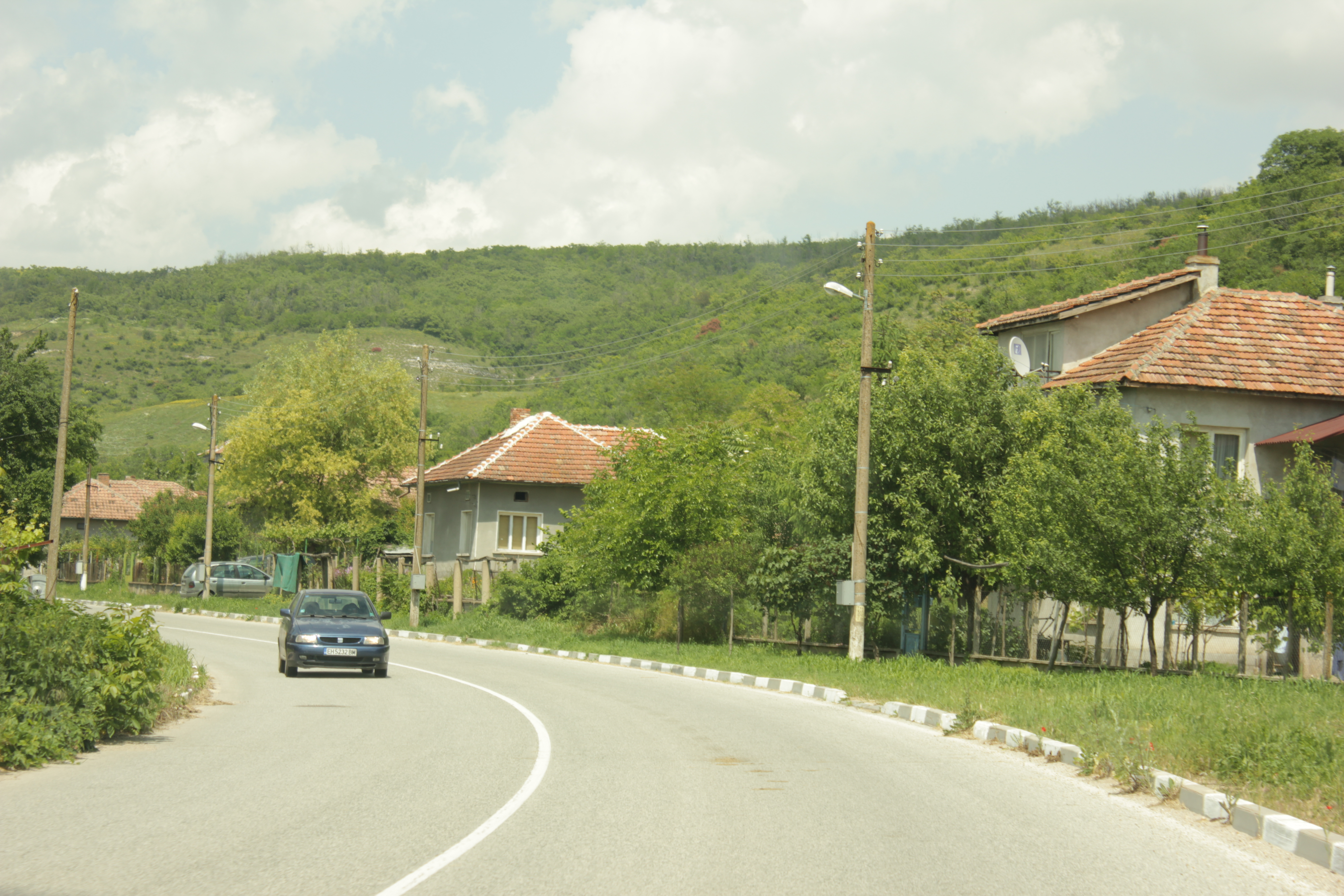 Main street in Zhernov